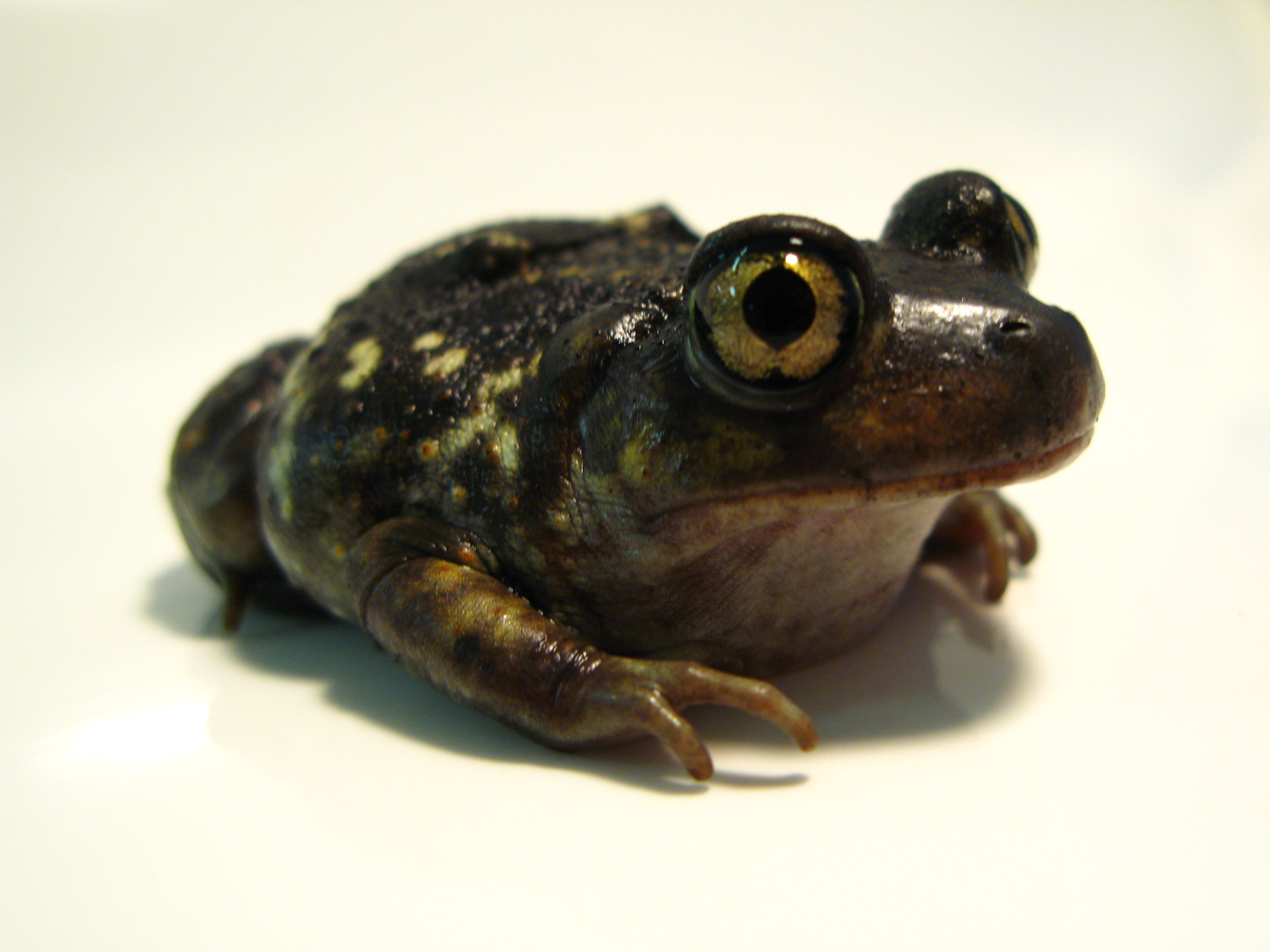 American Eastern Spadefoot Toad Scaphiopus holbrookii